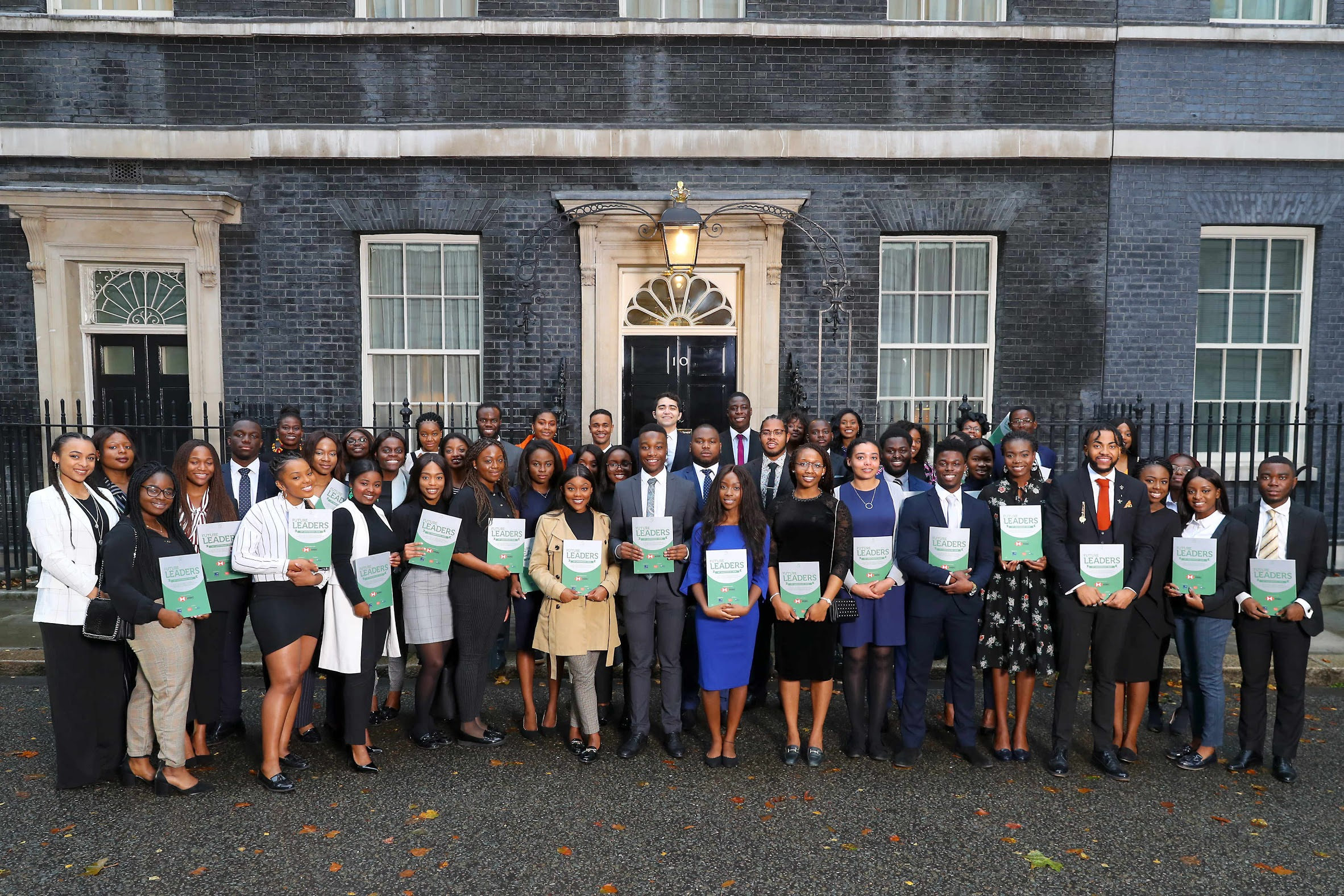 Prime Minister Theresa May attended a Black History Month reception at Downing Street with special guest Naomi Campbell.